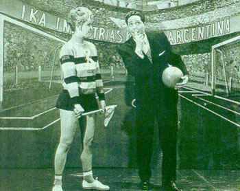 Publicity photograph from the 1956-1965 Argentinean television variety program "El Show de Andy Russell."